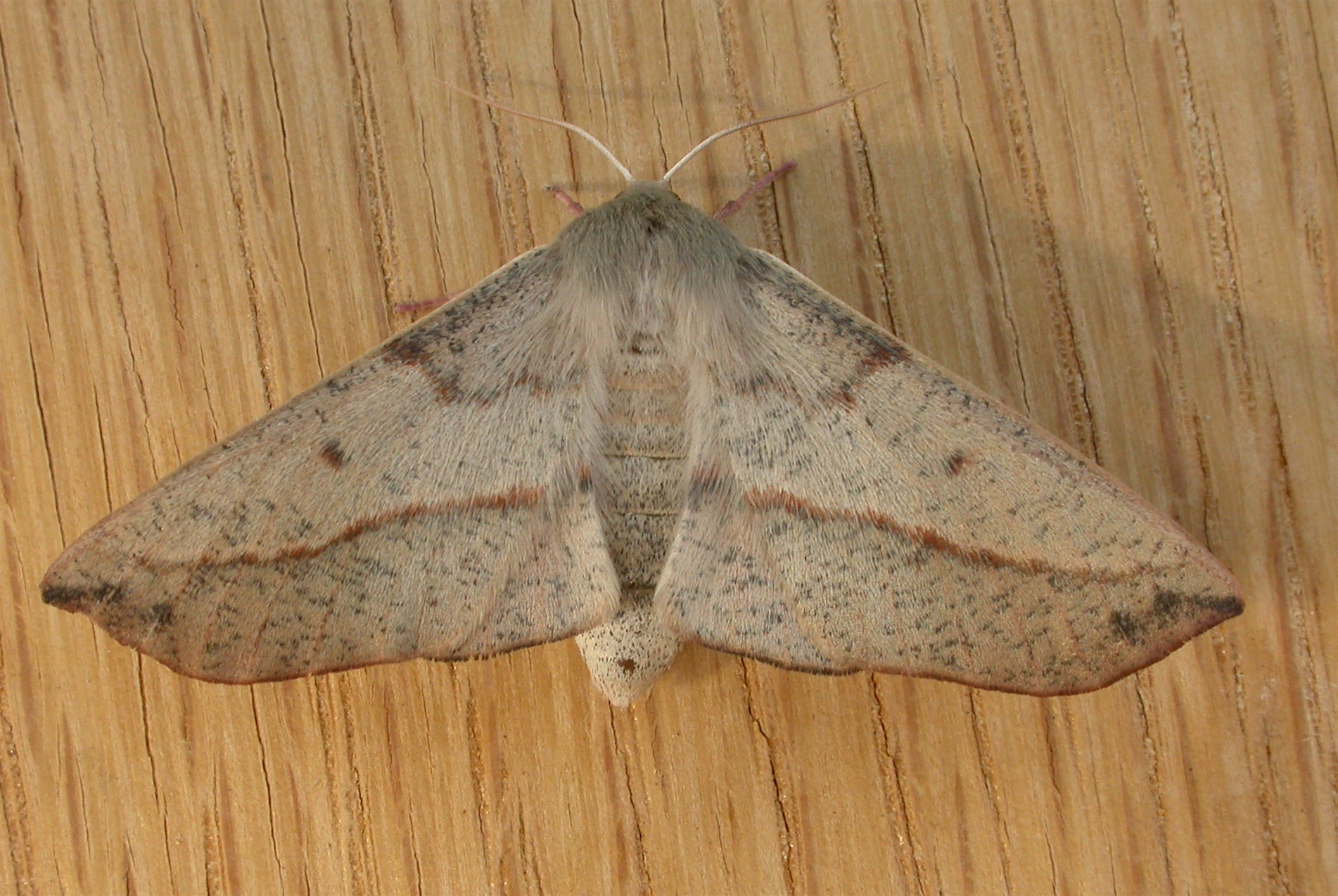 Antictenia punctunculus (T.P. Lucas, 1892), to MV light, Aranda, ACT, 15/16 December 2008